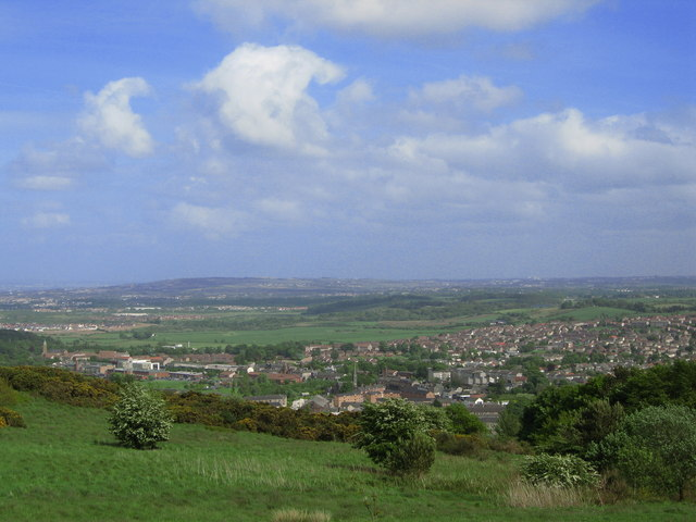 View over Barrhead (from Fereneze Hills), near Glasgow, Scotland, United Kingdom.